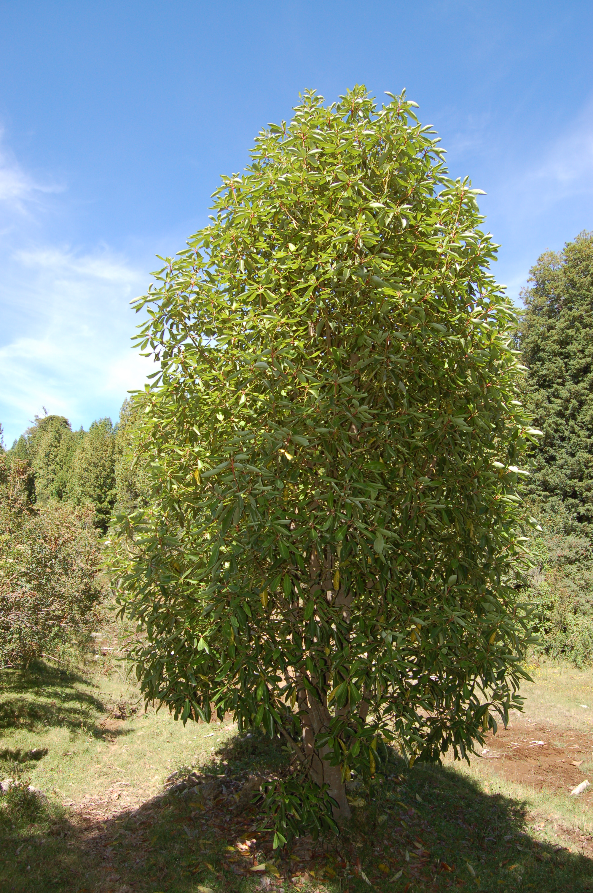 Young adult specimen of Drimys Winteri, of about 3 meters high.